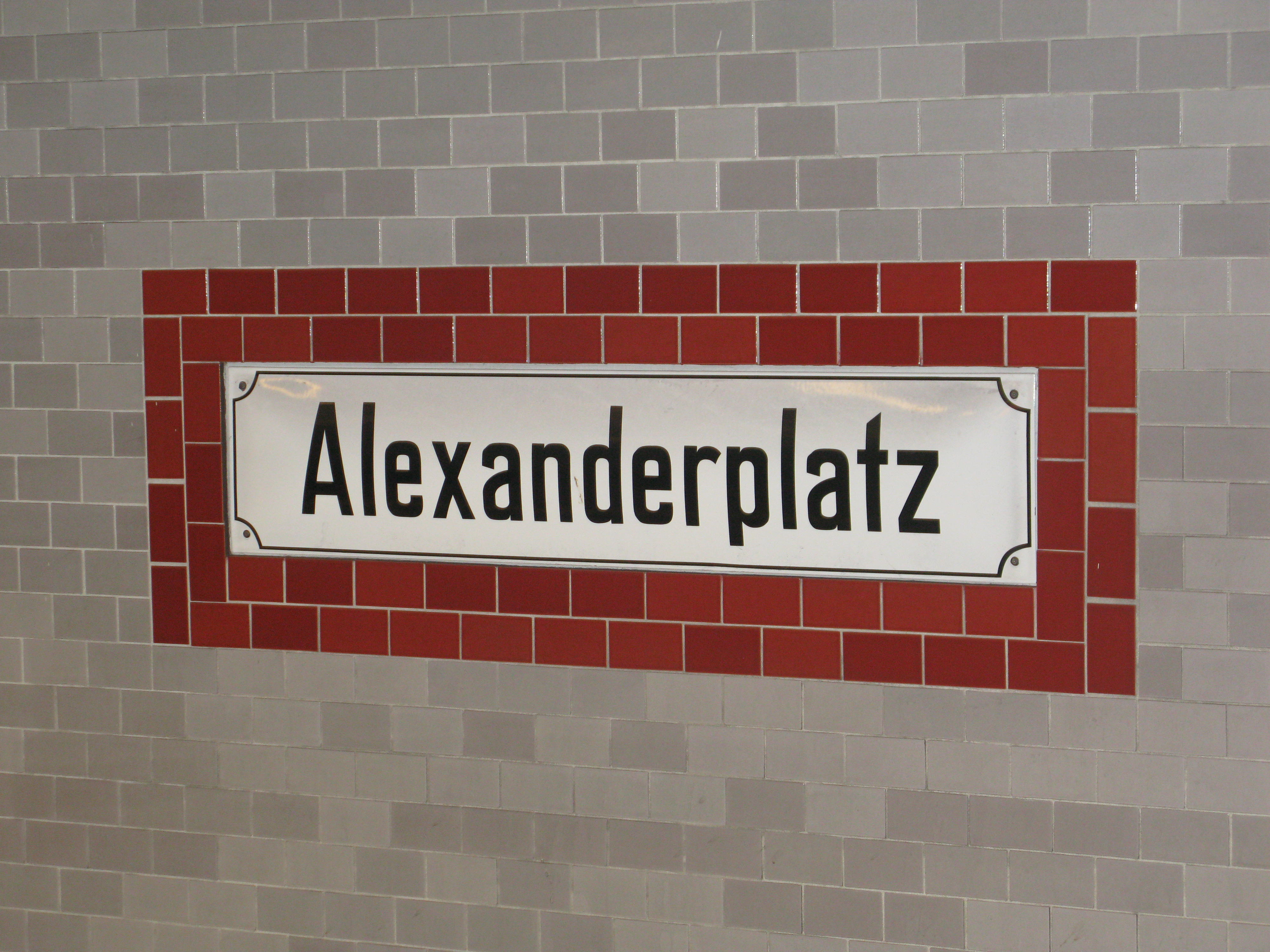 Sign in the underground-station Alexanderplatz (Berlin, Germany)